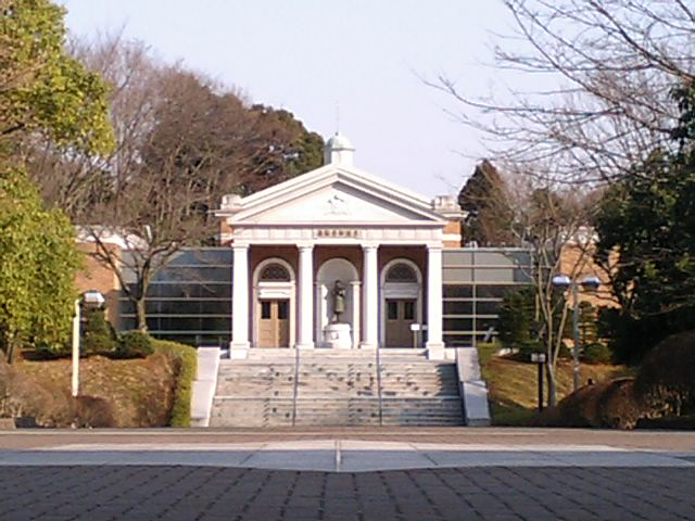 A mansion on the campus of Takushoku University in Hachiōji, Tokyo. On the top of the stairs is the bronze statue of Prime Minister Katsura Tarō (1848–1913).